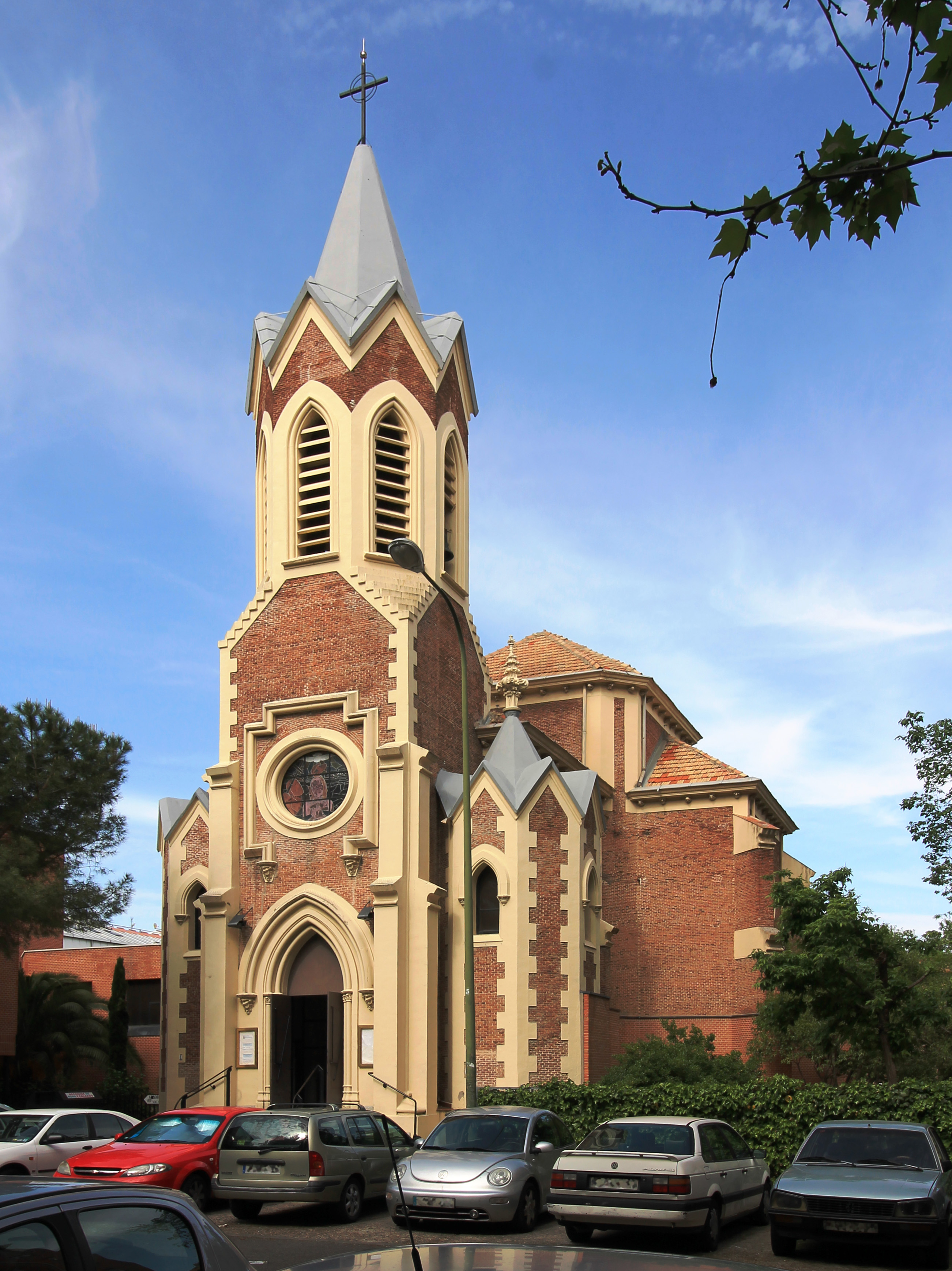 Façade of the Church of San Juan Bautista in Madrid (Spain).